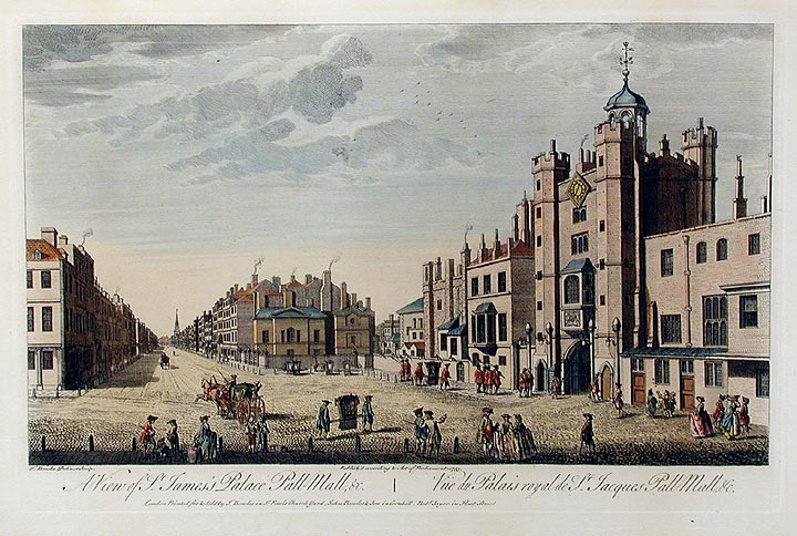 A View of St James Palace, Pall Mall etc by Thomas Bowles, published 1763. This view looks east. The gatehouse of St James's Palace is on the right. Lettering below image: [left] T. Bowles Delin et Sculp. [centre] Publishe'd according to Act of Parliament / [left] A View of S.t James's Palace, Pall-Mall, &c. [right] Vüe du Palais royal d S.t Jacques Pall-Mall &c. / [centre] London. Printed for Bowles & Carver 69 S.t Paul's Church Yard. Rob.t Wilkinson at 58 Cornhill, and Laurie & Whittle 53 Fleet Street.